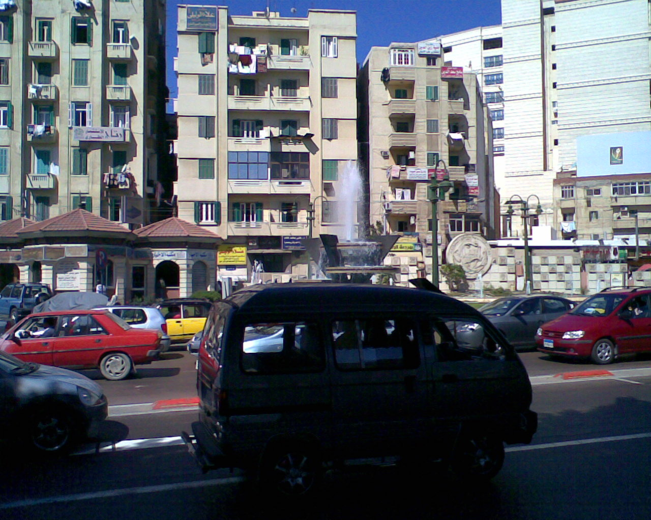 Sidi Gaber, Alexandria, Egypt.